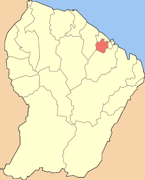 Made map myself.